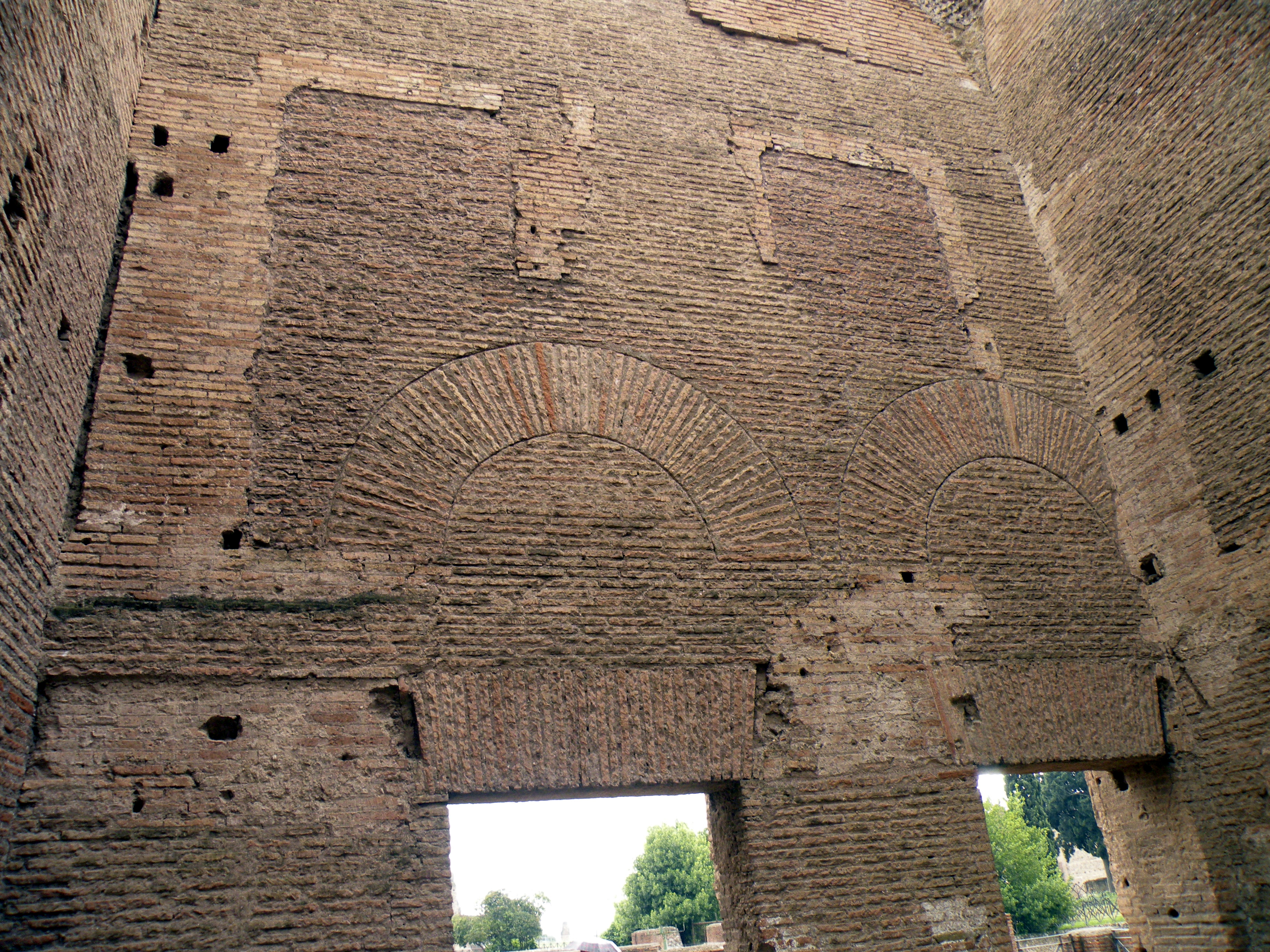 Discharging arch, Domus Augustana, Rome.